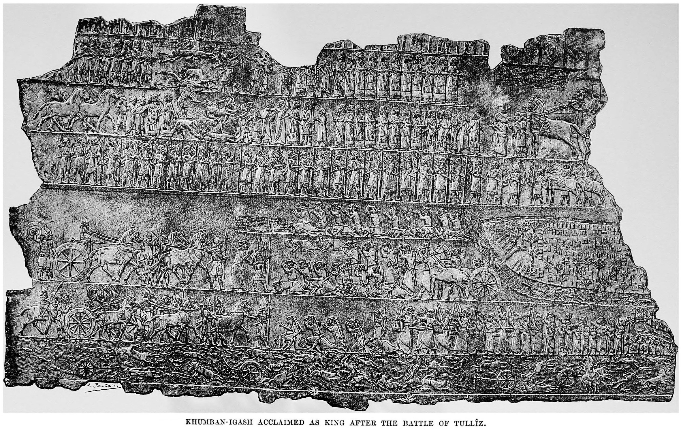 Khumban-Igash acclaimed as King after the Battle of Tulliz